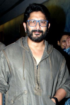 Arshad Warsi graces the special screening of Poster Boys.